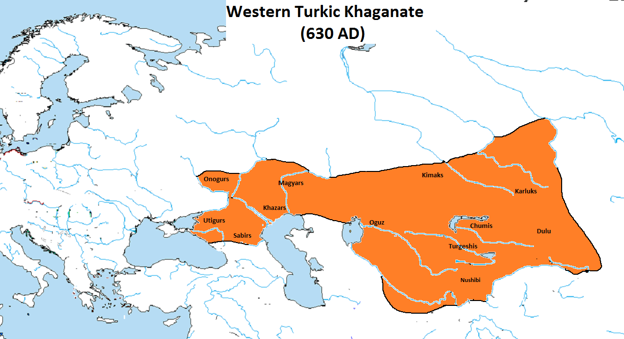 Western Turkic Khaganate